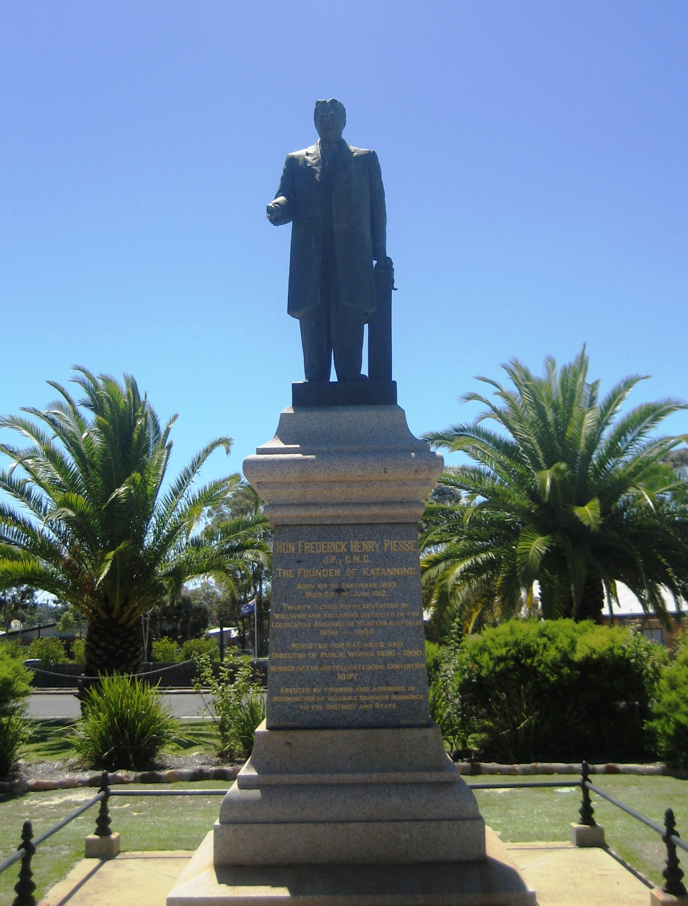 Public art - Public art - Frederick Henry Piesse by Pietro Porcelli, Katanning, Western Australia